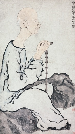 Portrait of by Luo Ping, 1762-63